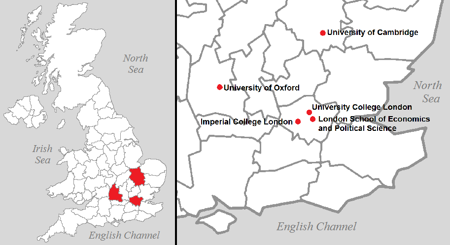 Location of G5 universities (G5 group of British universities)